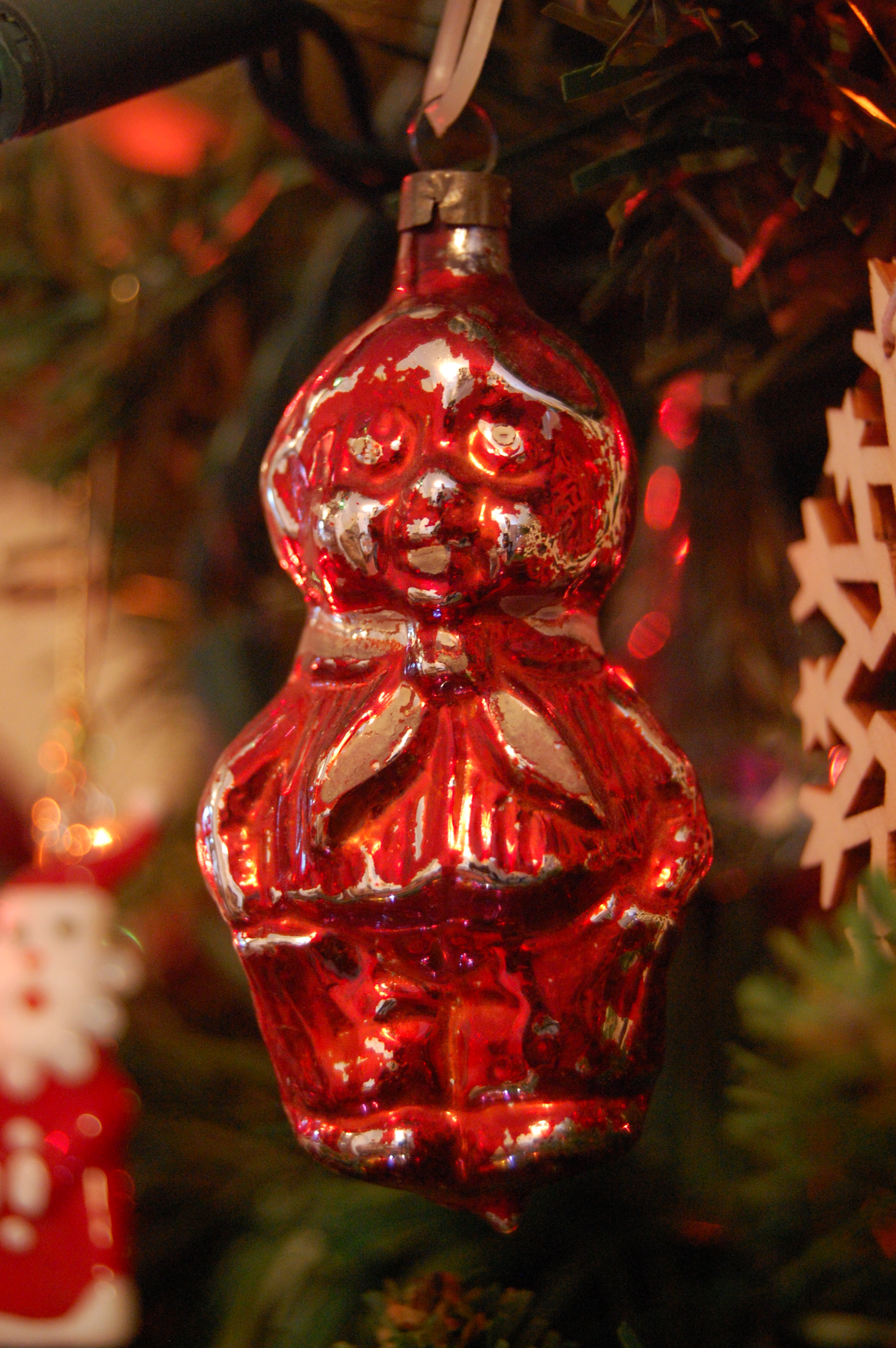 A glass Christmas ornament in the form of a teddy bear, wearing a scarf. Purchased (probably from Woolworths) in Birmingham, England in December 1959. It is 75mm tall, not including the loop. This was purchased by my parents for their first Christmas as husband and wife, named "Claude", and had pride of place on the family Christmas tree every year until 2017. In December 2018 he was sadly found to be broken when taken out of storage.